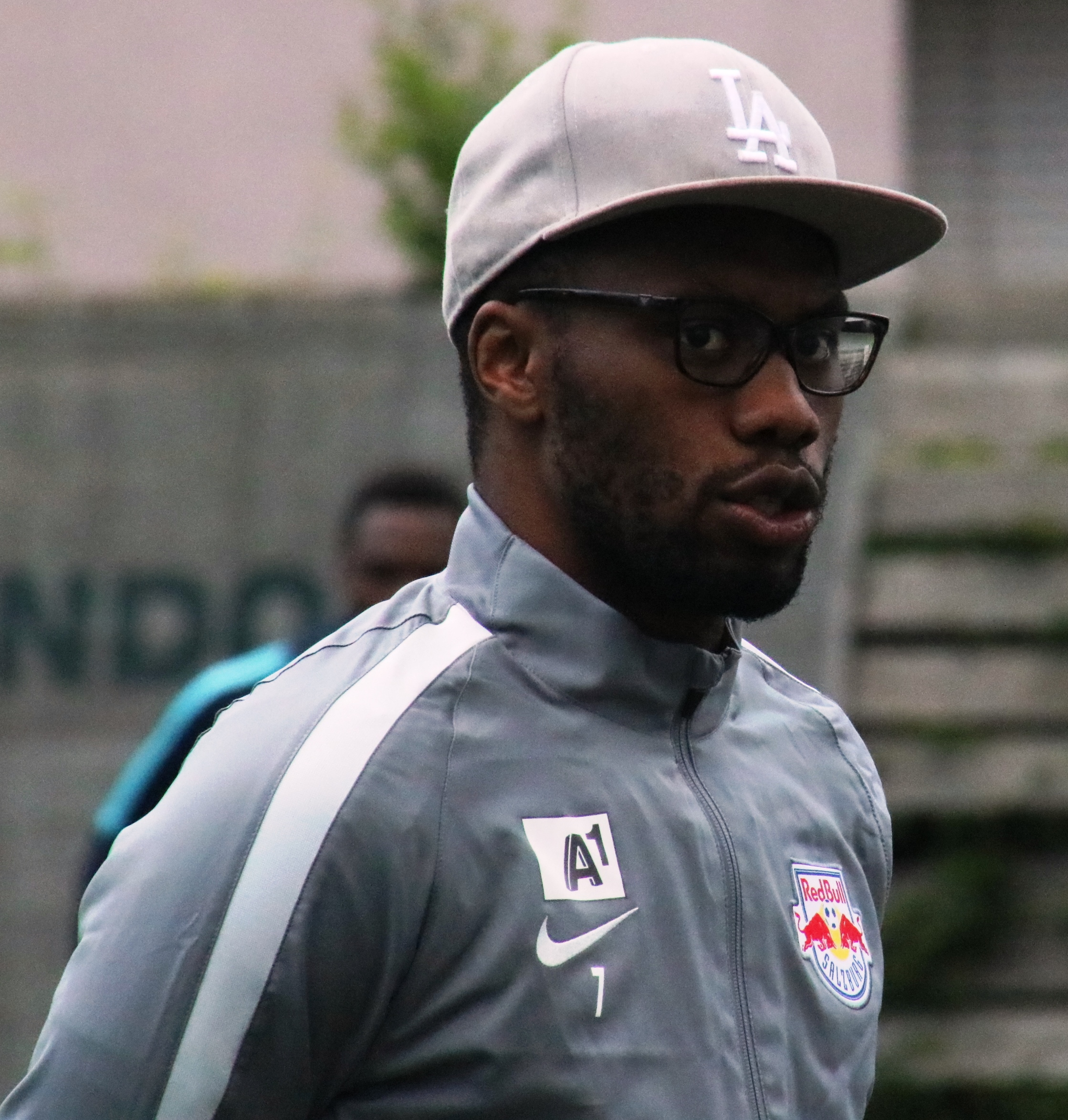 preseason match 2016/17